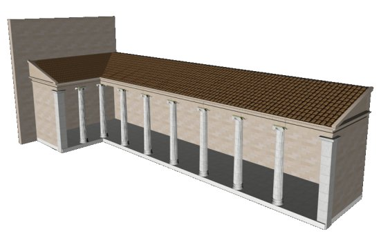 Reconstruction of the Pandroseion around 421 BC by Kronoskaf - Textured 3D Model (work in progress).